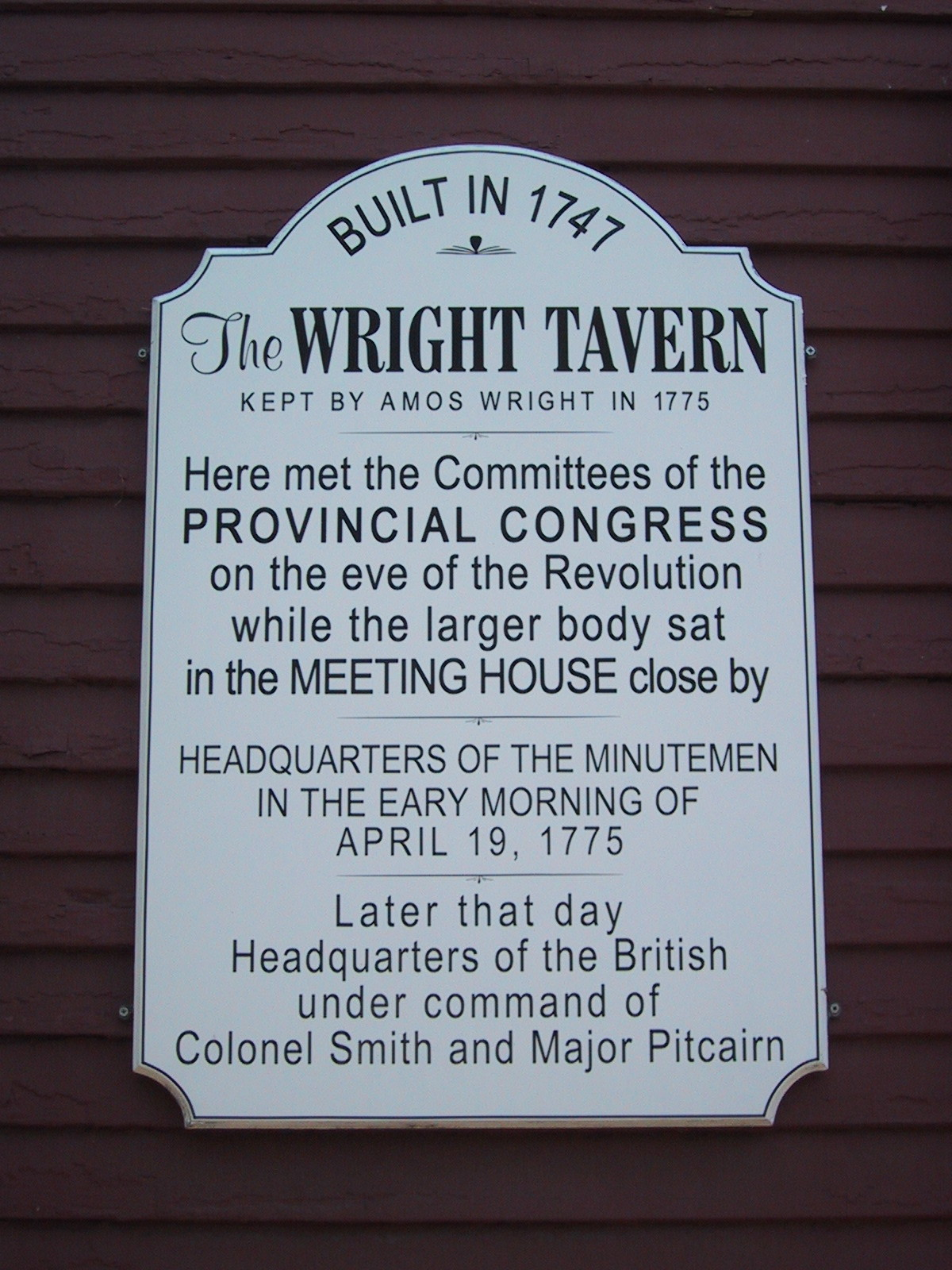 Information plaque from Wright Tavern, Concorde, MA